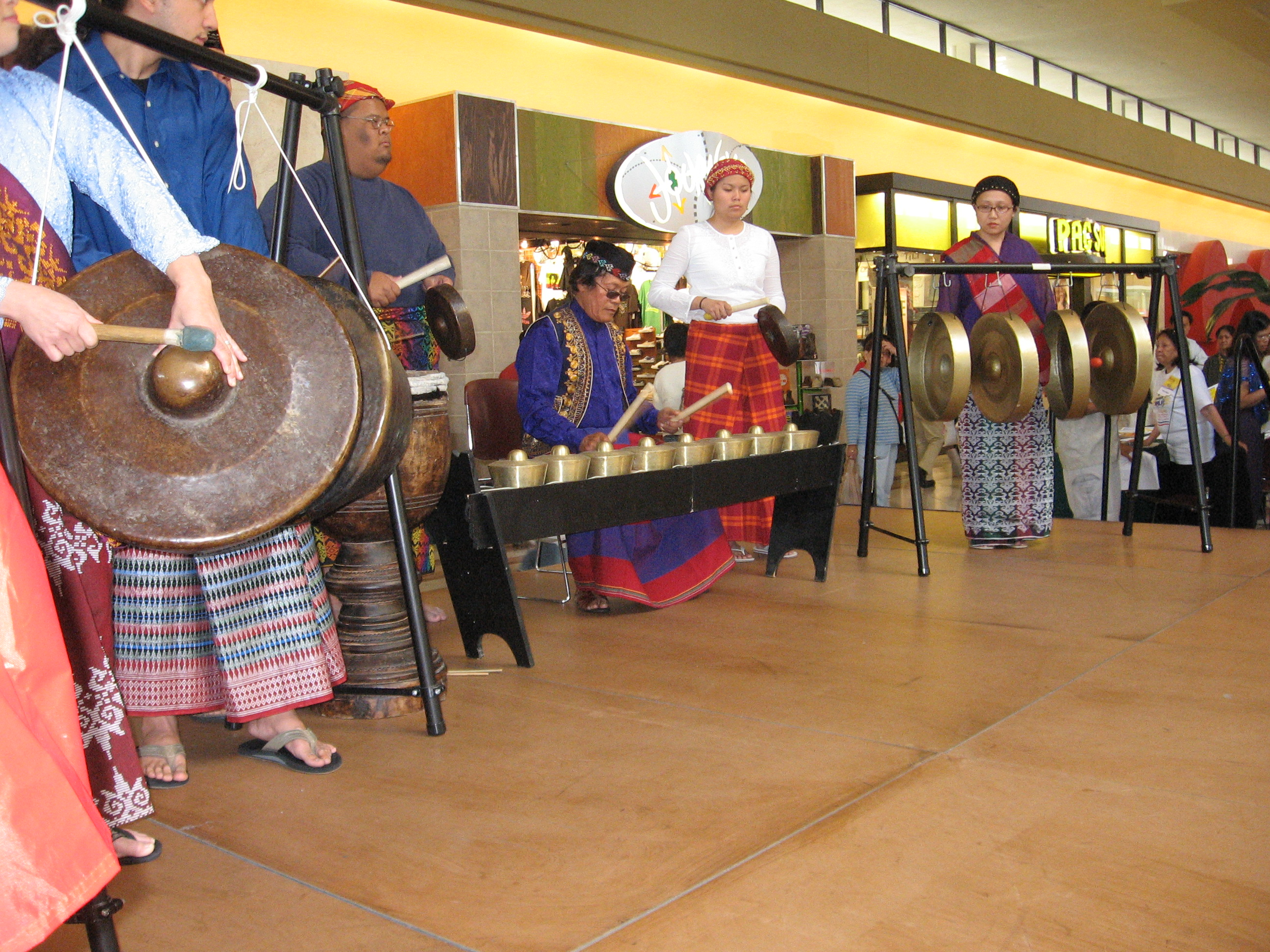 The five instruments of gongs and a drum that make up the Philippine kulintang ensemble. It is anchored by the horizontally laid, knobbed gongs known as the kulintang used as a main melodic instrument in the kulintang ensemble. Here, it is being played by the Palabuniyan Kulintang Ensemble at Serramonte Shopping Center, Daly City.